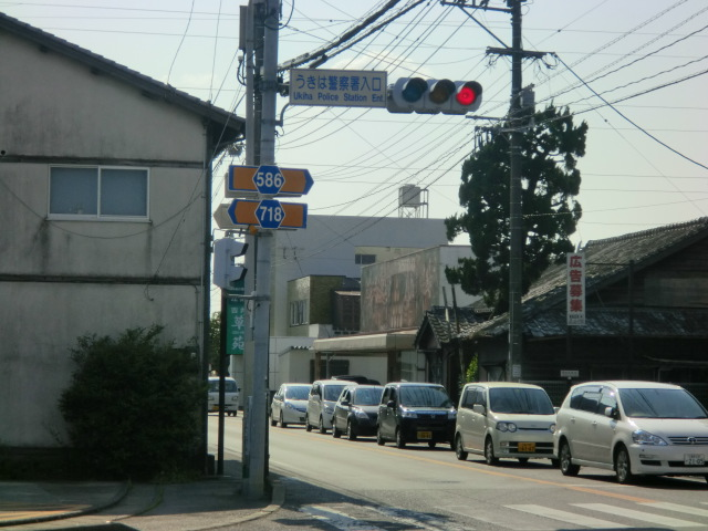 Connecting point of Fukuoka Prefectural Road No.586 and No,718 of Ukiha city,Fukuoka prefecture,Japan.